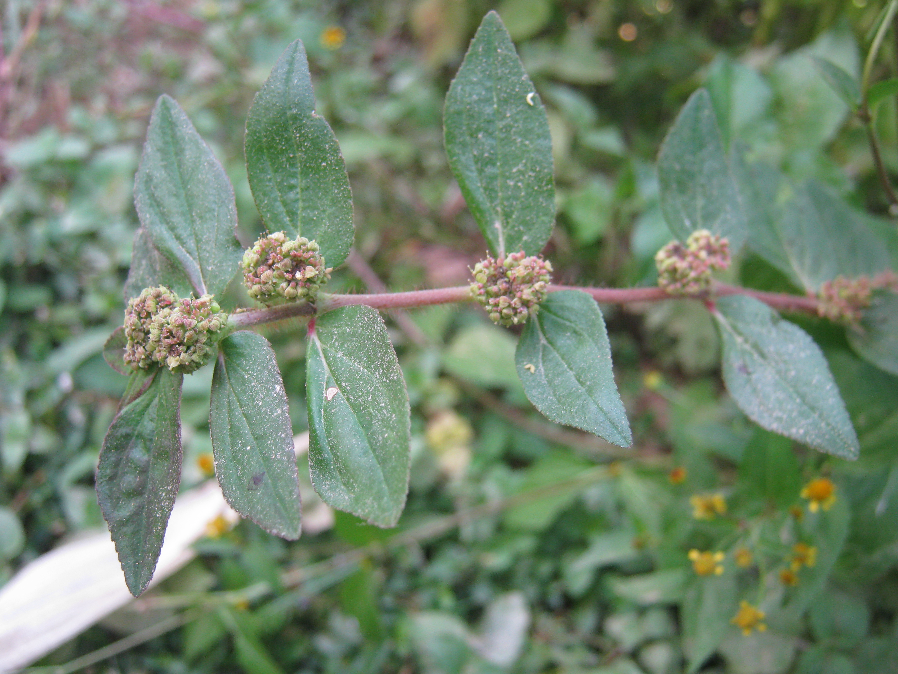 Euphorbia hirta, a medicinal herb found in Panchkhal valley.